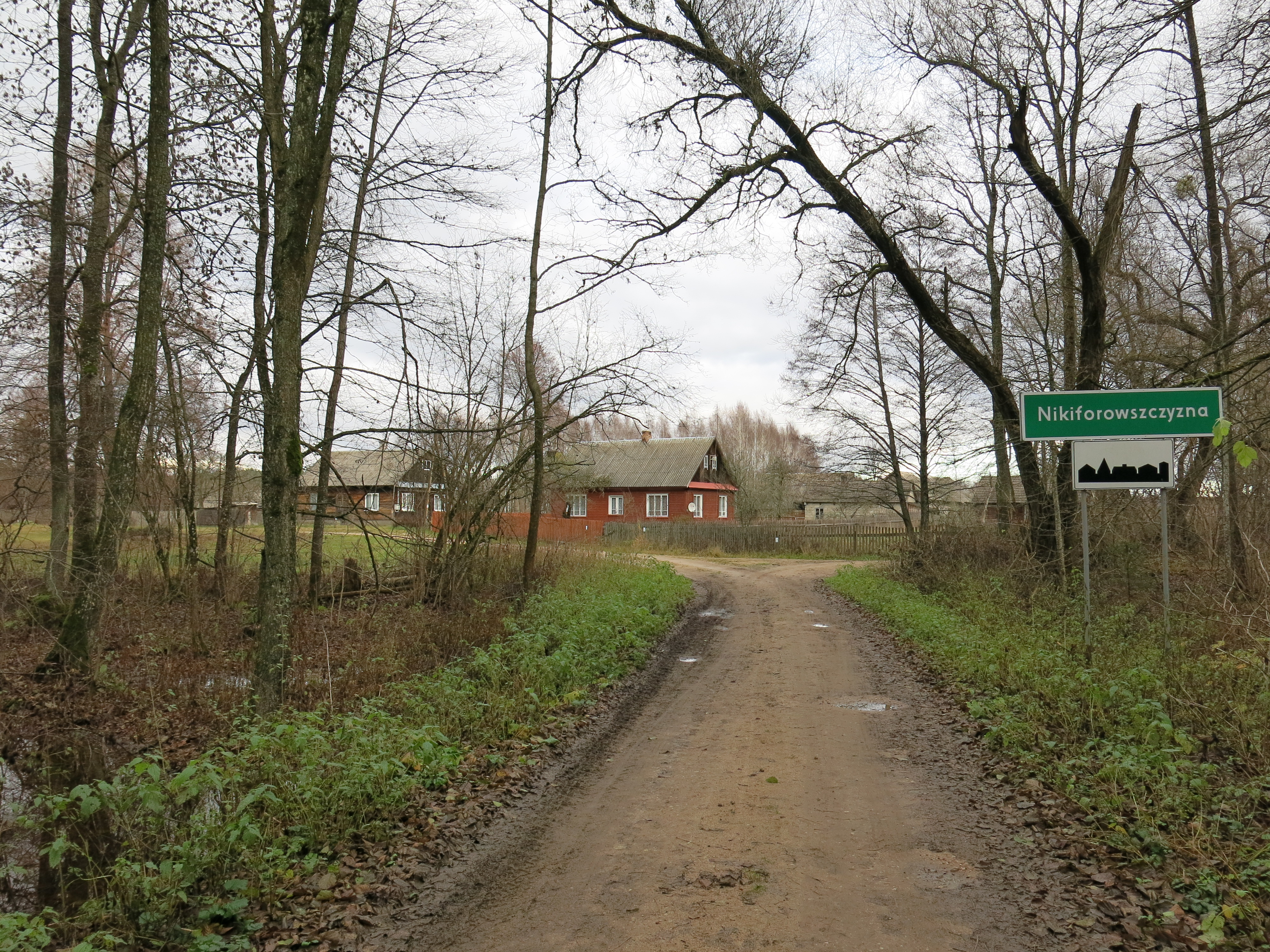 Nikiforowszczyzna, gmina Dubicze Cerkiewne, podlaskie, Poland